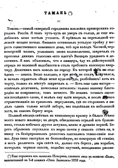 Scan of the first page of the Mikhail Lermontov's "Taman" novell; from the first publishing in the "Otechestvennye zapiski" ("Patriotic Notes") Magazine, 1840, Volume 8, No. 2, Page 144. Language: Russian.